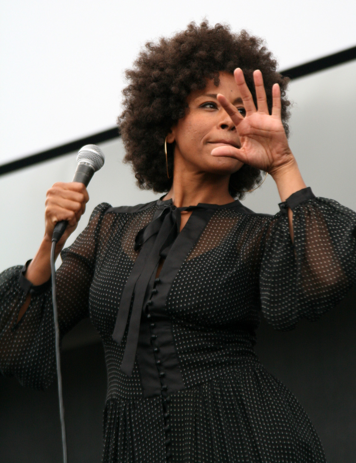 Singer Malia at the Rathausplatz in Vienna (Jazz-Fest Wien)